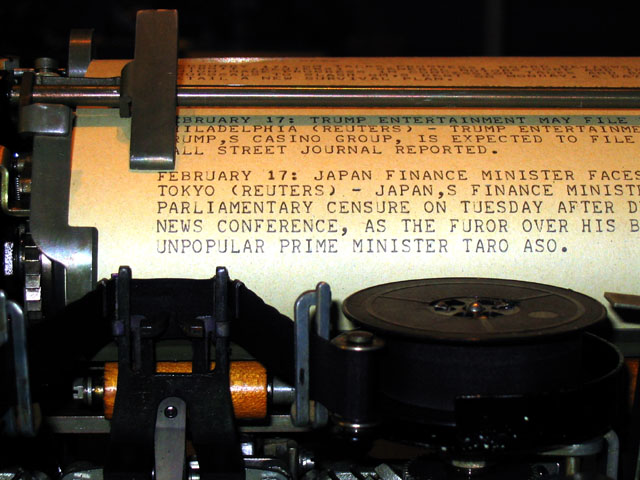 This is a Teletype Model 15, built in the 1940s, refurbished and photographed in 2009. It is printing a Reuters news feed being read via RSS.